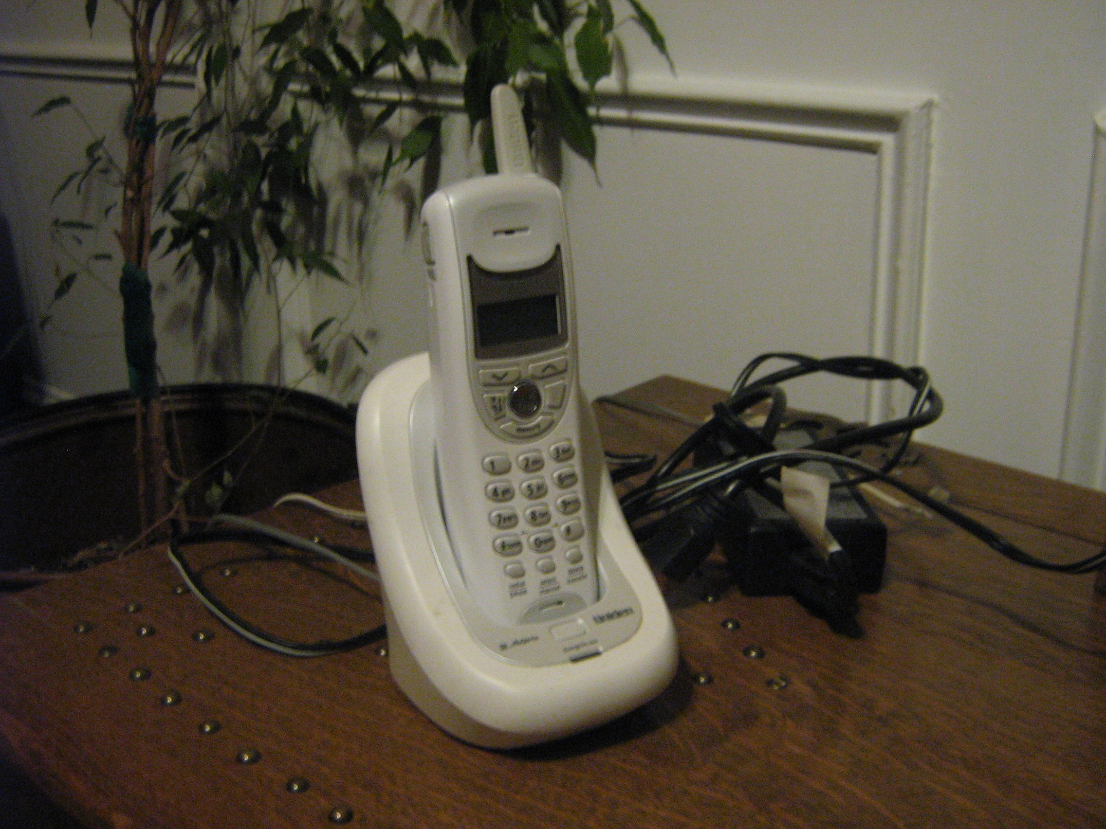 A phone